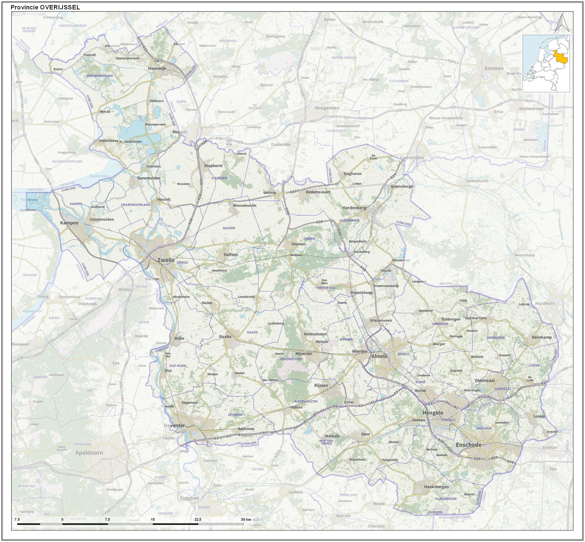 Toographic overview map of the Dutch Province of Overijssel as of 2018. Compiled by Jan-Willem van Aalst using Dutch Governmental open data (CC-BY Kadaster) and OpenStreetMap data (CC-BY OpenStreetMap contributors).